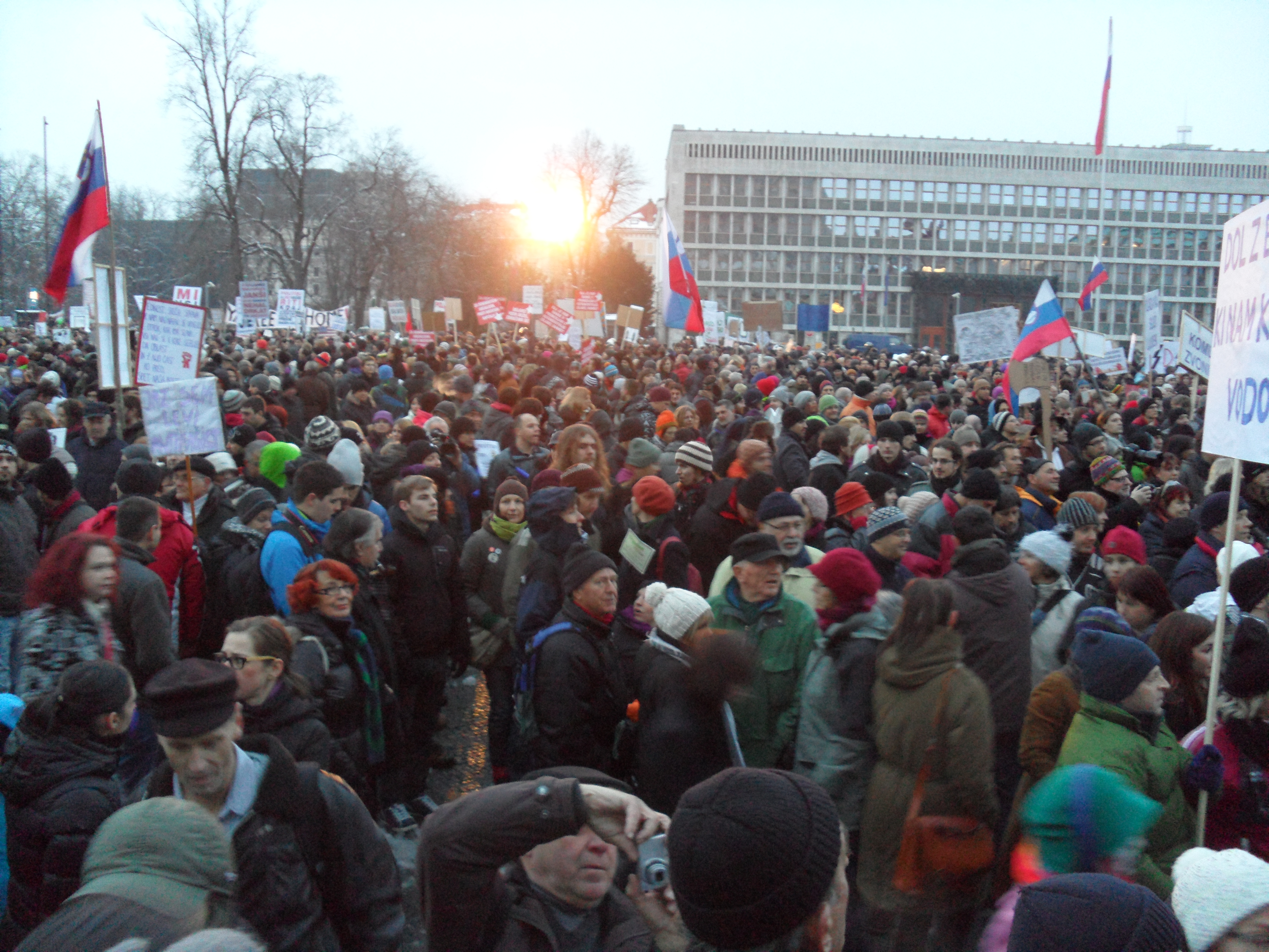 Third allslovene riots in Ljubljana. In Ljubljana, around 20,000 people rallied against Slovenia's center-right government under PM Janez Janša on February 8th 2013. People protested against the Slovenian political elite and especially Janša's leadership. It was the largest anti-government rally since the protests started about three months ago.